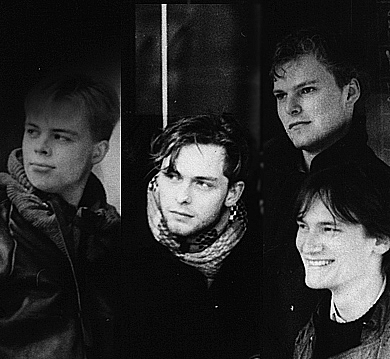 Photo of the Danish band Alter Ego in front of "Café Au Lait", Nørre Voldgade, Copenhagen in 1985 by GaffapeadiaN. Author has released photo in the public domain.